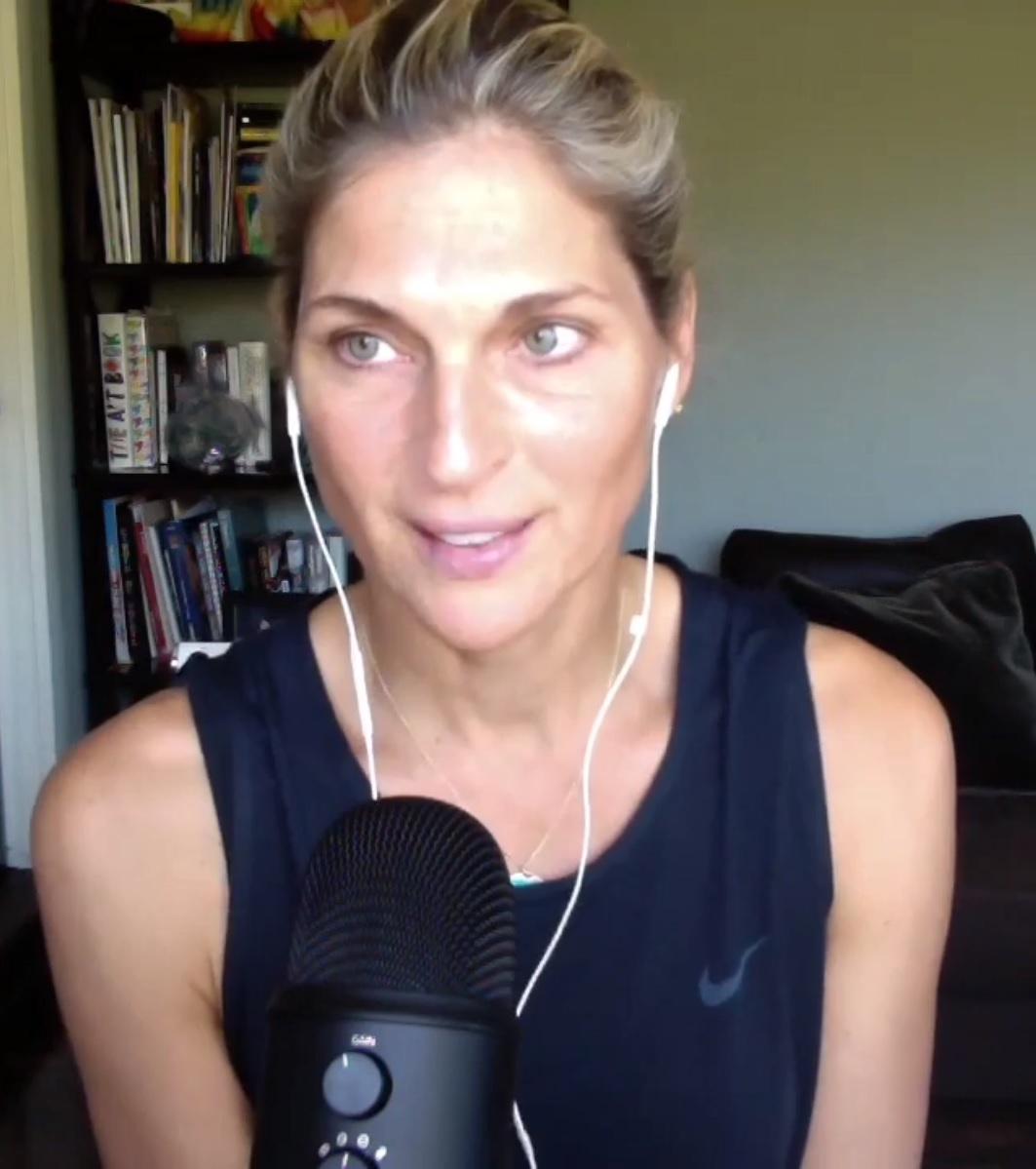 Full show notes for this episode can be found here: Some people get an awful lot done in a day. And then there's Gabrielle Reece. As a professional athlete, model, mother, author, fitness leader, television personality (with big wave surfer Laird Hamilton, her husband of twenty years), and podcaster (with our friend Neil Strauss), Gabrielle's done a lot with her life — and shows no signs of slowing down. Sure, it can be hectic commuting frequently between New York, Malibu, and Hawaii while taking care of a family. But as a lifelong freelancer, she wouldn't have it any other way. Listen, learn, and enjoy!